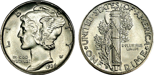 Composite image of a Mercury dime